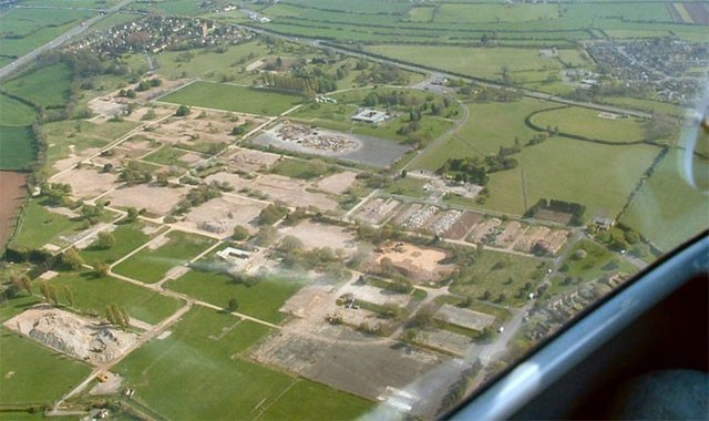 RAF Locking site after demolition.